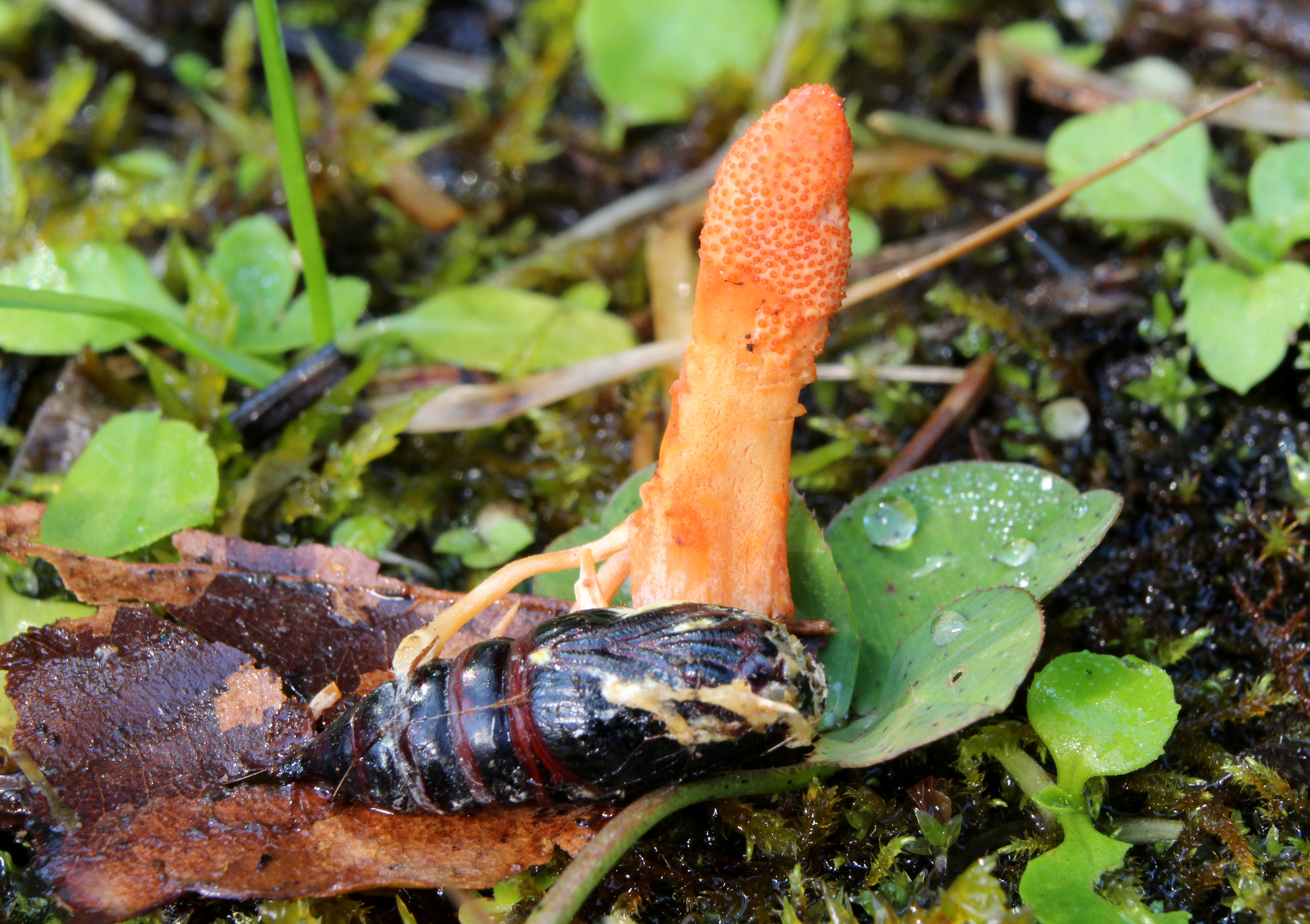 Cordyceps militaris, Family: Cordycipitaceae, Location: Germany, Oberstaufen, Imberg